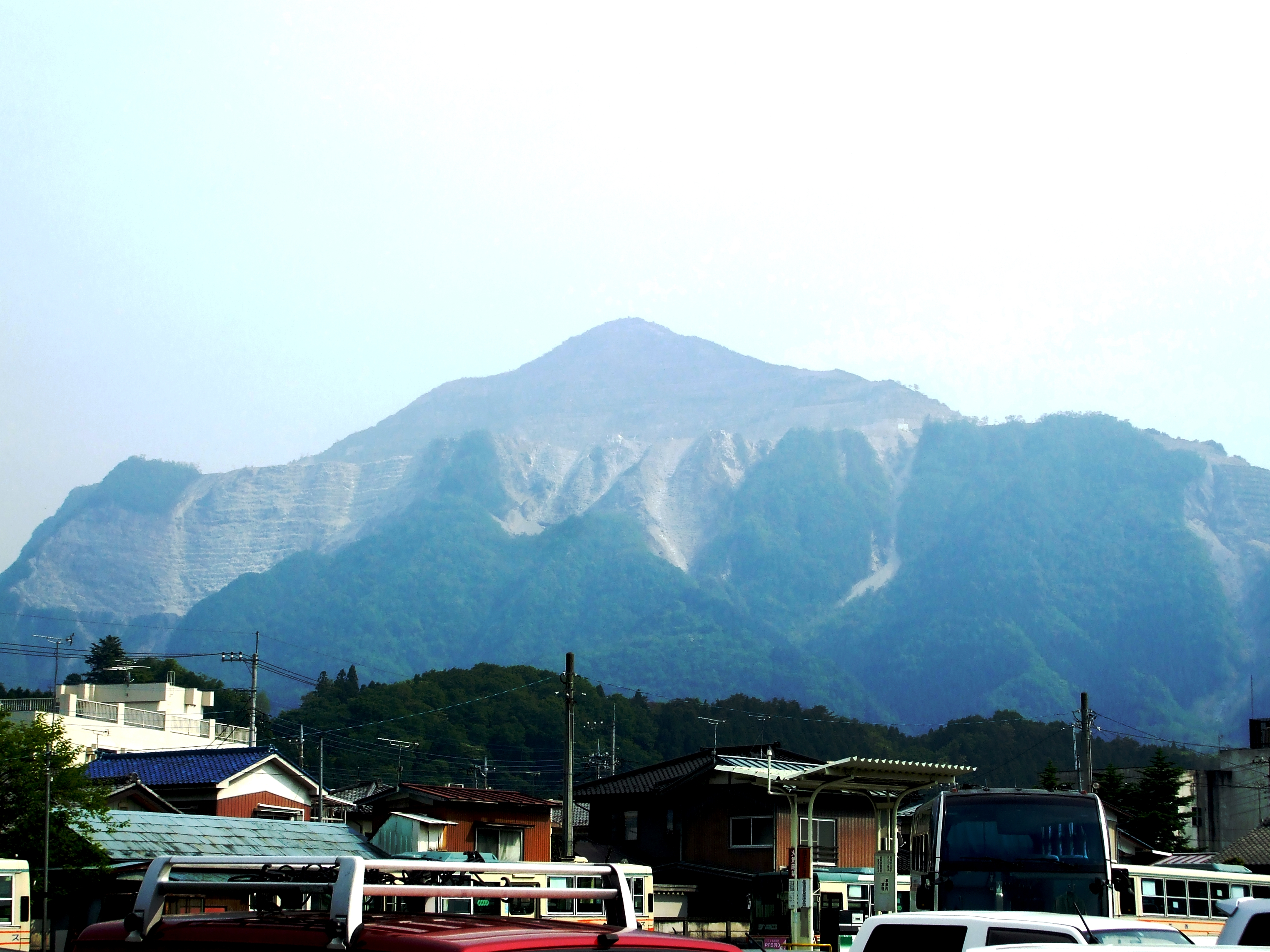 Mount Buko from Chichibu, Saitama, Japan